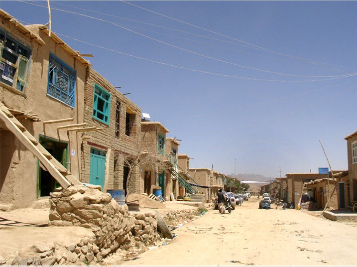 ANGORI Jaghuri District, Ghazni, Afghanistan